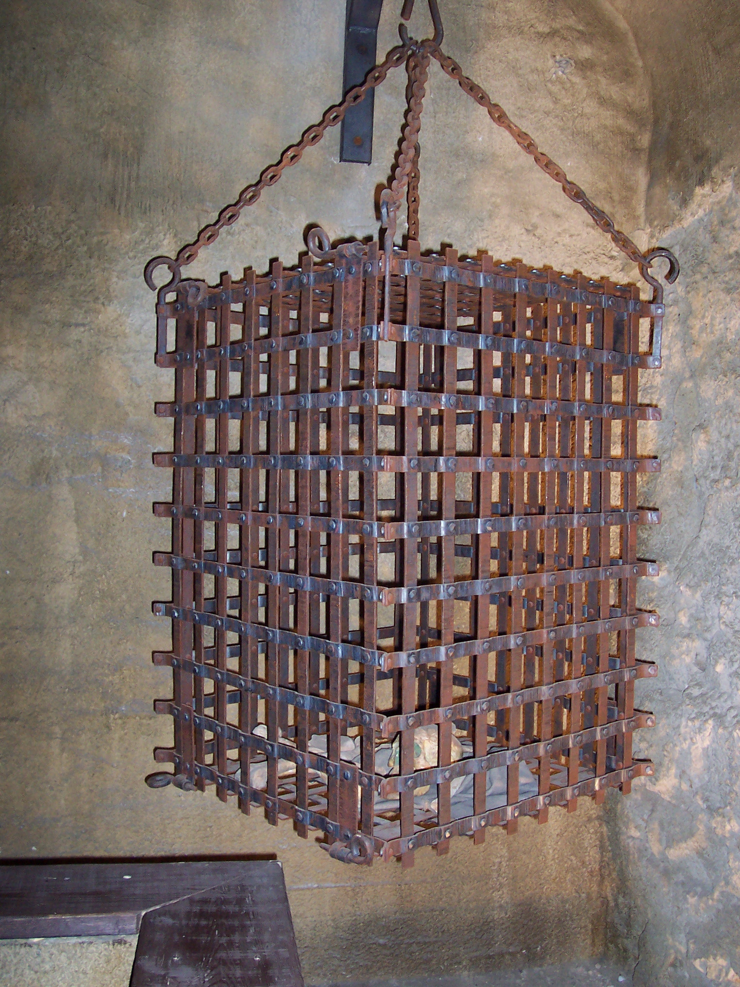 Hrad Kost - mučírna (klec) / Castle Kost - torture room (cage)